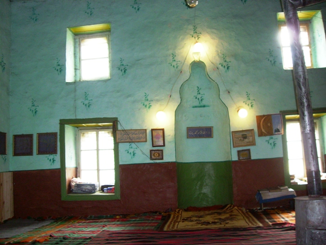 The Mosque of Nastan - Devin.